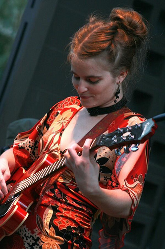 Suzanna Choffel on stage at SXSW Music Festival in Austin TX